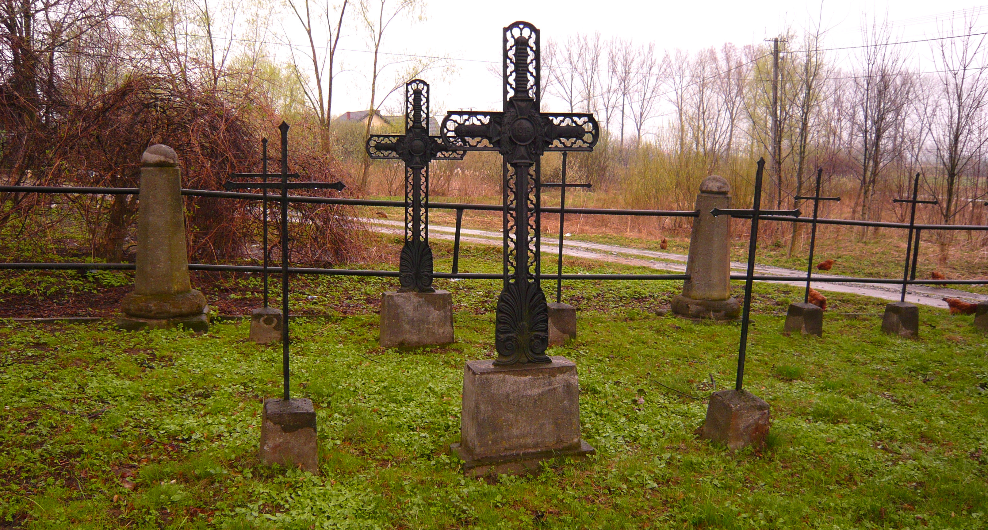 I WW cementery Krzeczów